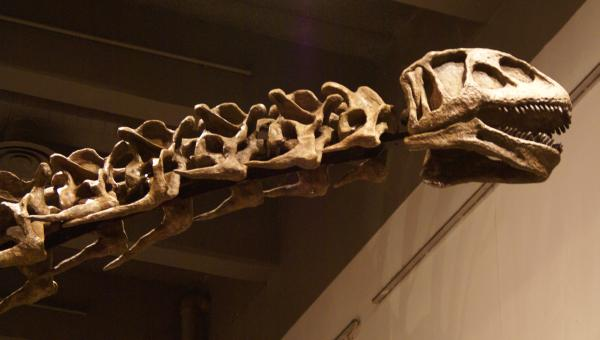 close-up of the head of Nuoerosausus chaganensis